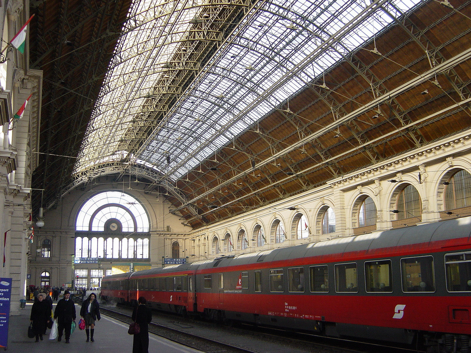 de: Österreichischer EuroCity in Budapest Keleti pu. (Ostbf), Ungarn en: Austrian EuroCity train in Budapest Keleti pu. (Eastern sation), Hungary